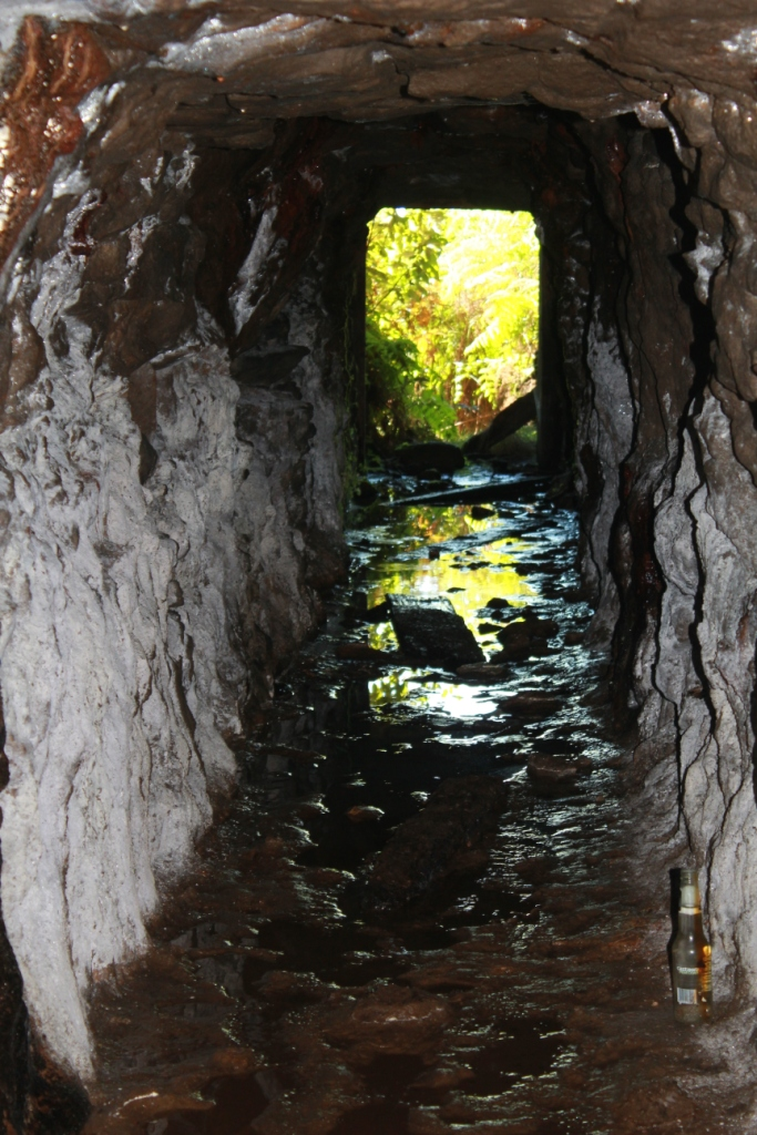 During 1942 when a Japanese invasion seemed a real possibility, a tunnel and chamber were built immediately above the northern portal of the tunnel into which explosives would have been packed and detonated if required, thereby blocking the tunnel.